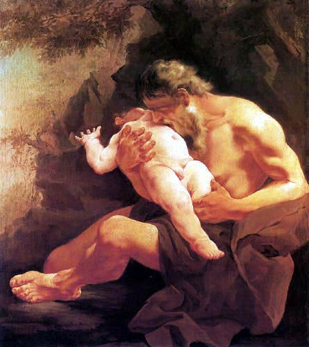 Giambattista Tiepolo (Italian, 1696-1770). Saturn Devouring His Son, 1745